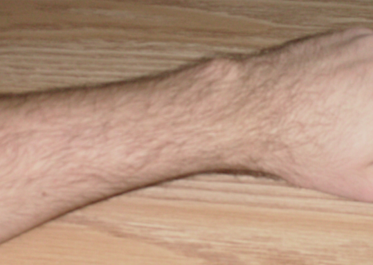 This is a photo I took of my wrist.